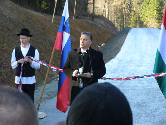 Orbán Viktor, president of Hungary in the transfer of the Mass Road in Kétvölgy, near the Slovene border (Čepinci)